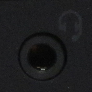 Headset socket on Lenovo laptop